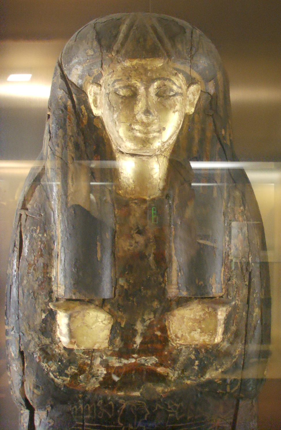 Egyptian sarcophagus of a woman in the Egyptian Museum in Florence (Italy).